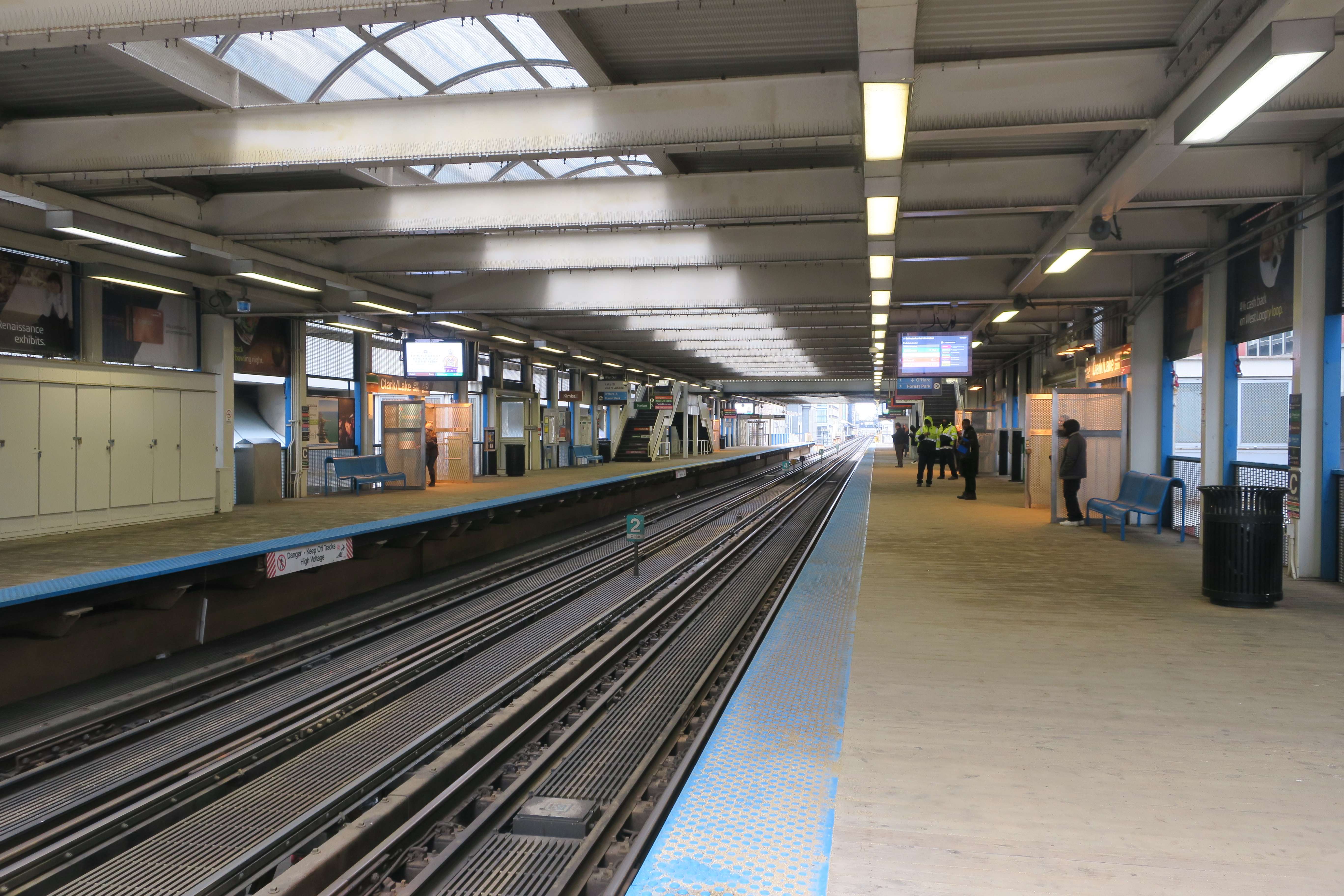 Under the canopy at Clark/Lake